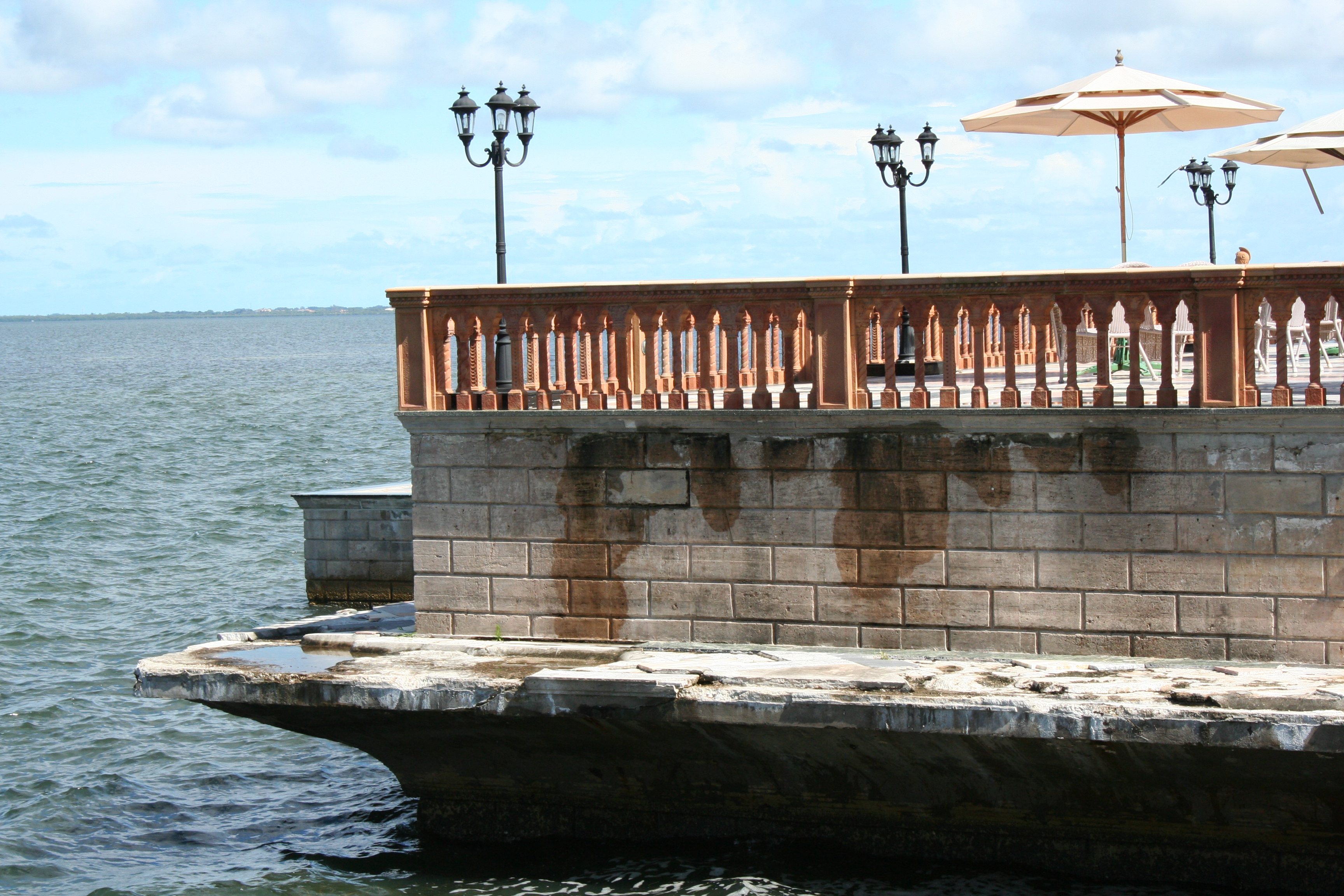 Veranda at The Cà d’Zan, Sarasota, Florida, United States